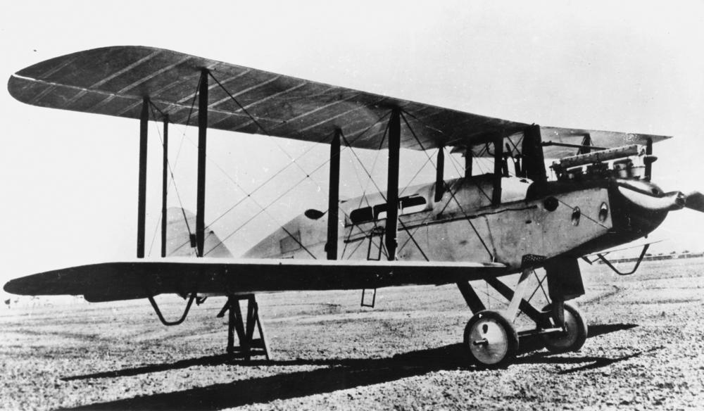 G-AUED Airco DH 9c aeroplane.